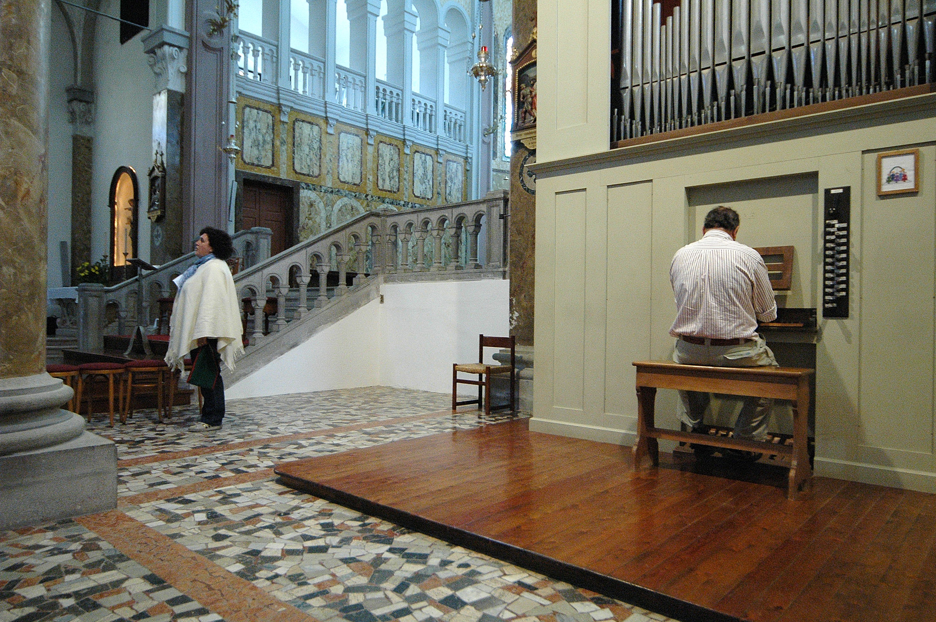 Rehearsal of couple Pergelier at church of San Pietro al Natisone, Friuli, Italy